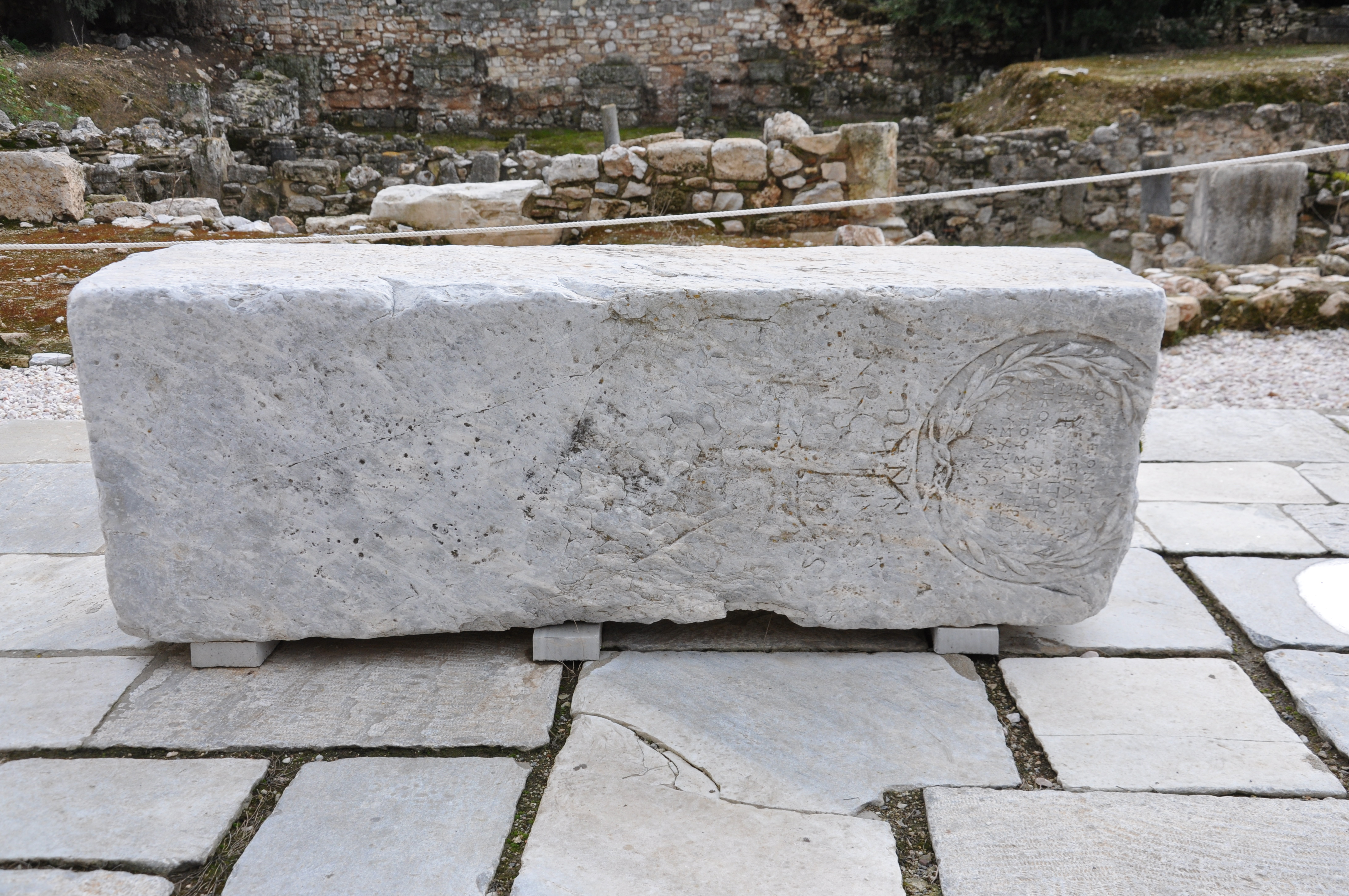 This is an object, firstly dedicated to Apollon. But after ages it has been used as a gift, dedicated to a christian sanctuarium. An ancient case of obvious copyfraud, by a person or a group of a large social influence. .